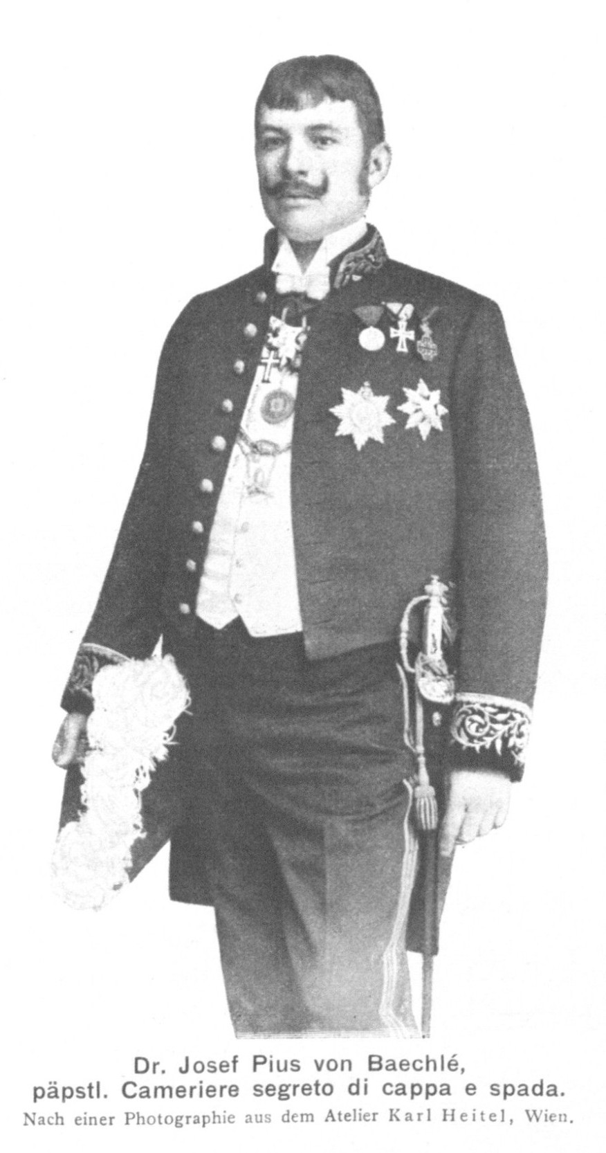 Photograph of Josef von Baechlé (1868-1933), Austrian politician.